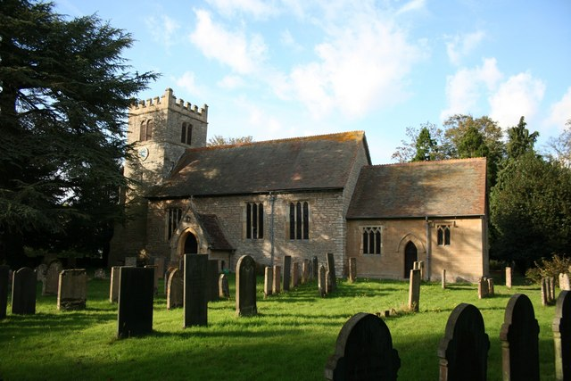 St.Mary's church, Bleasby Pevsner describes St.Mary's church as "Basically 13th century but almost rebuilt in the 19th century, ie. restored in 1845, 1852, and more extensively (and dreadfully) in 1869 by Ewan Chritsian"